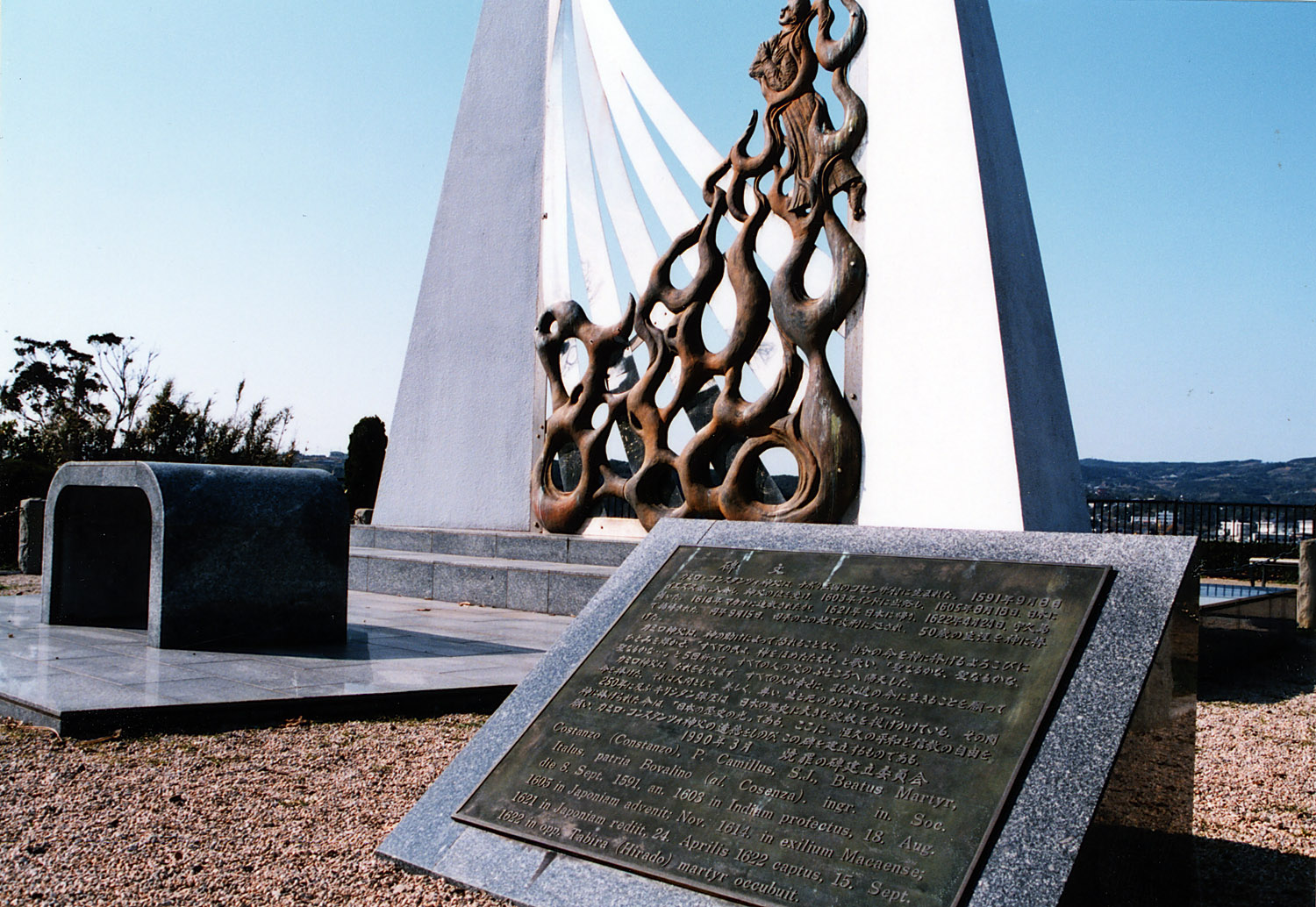 Memorial to Costanzo Camillus, Jesuit martyred in Japan. Hirado, Nagasaki Prefecture, Japan. I took the photo.